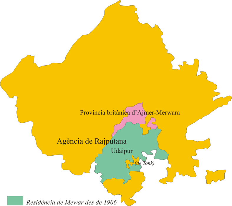 Mewar (Udaipur) agency (since 1906)